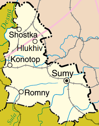 Map of Sumy Oblast, Ukraine Adapted from